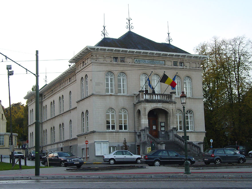 Watermael-Boitsfort Town Hall. Photograph taken on 1st November 2006 by David Edgar.